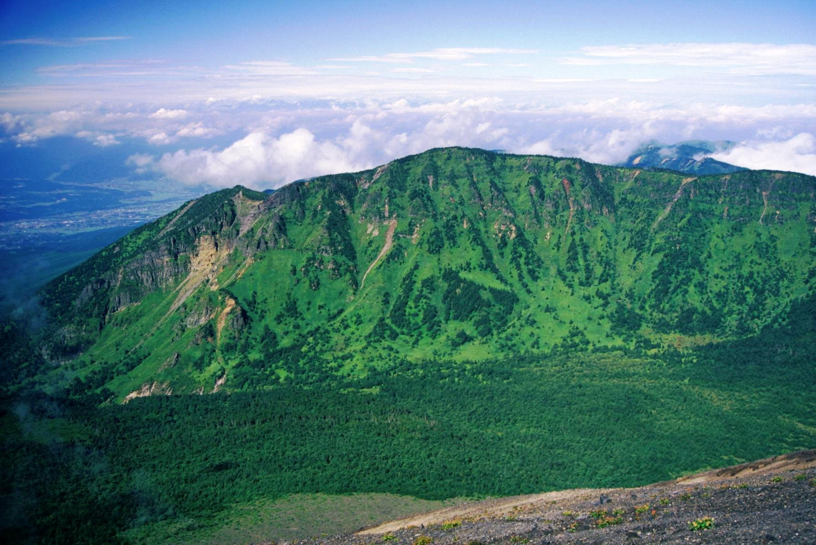 Mount Kurofu seen from Mount Asama